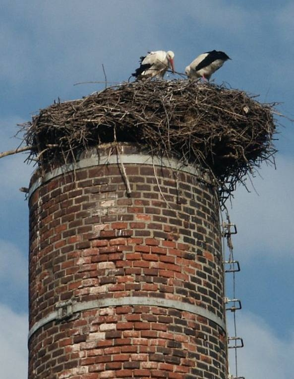 brickworks with storks nest